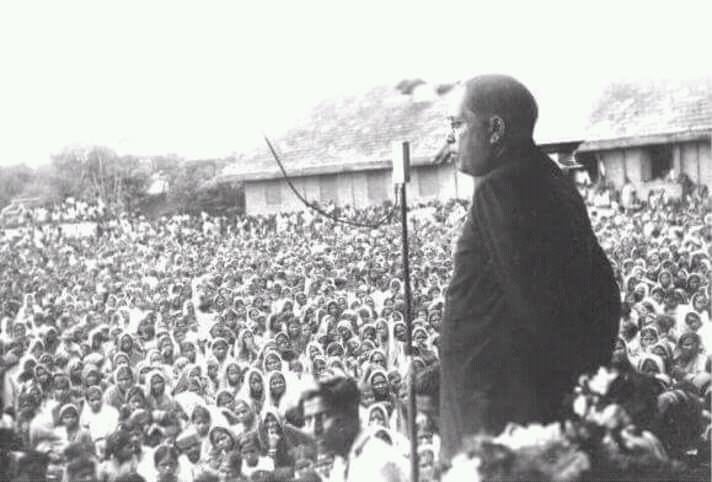 Dr. Babasaheb Ambedkar delivering a speech